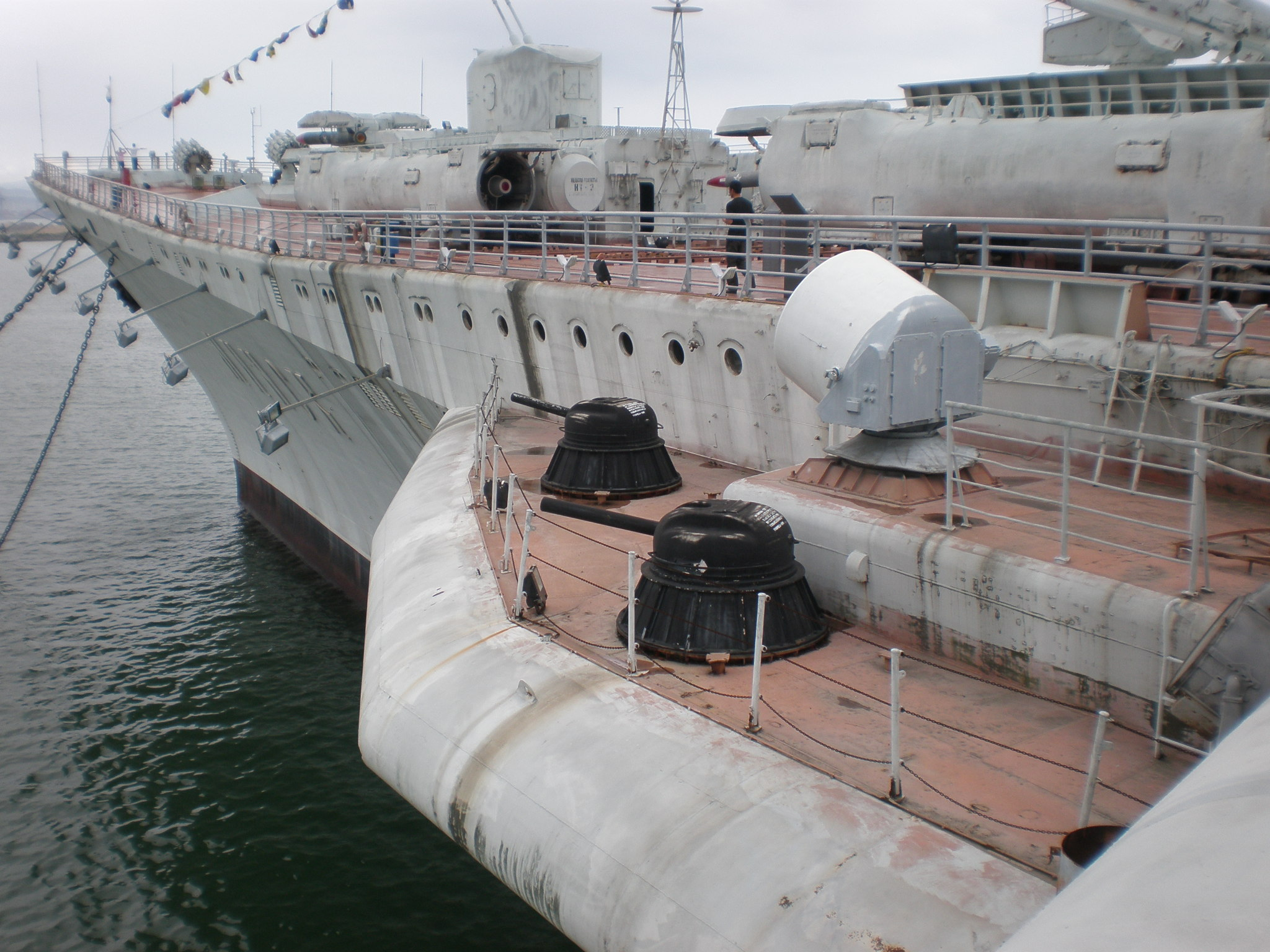 The port side of the bow of the aircraft carrier Minsk, located at the Minsk World theme park in Shenzhen, PRC. Two AK-630 CIWS guns are at lower right, while a SS-N-12 Sandbox launcher (one with the rear hatch open) is at top left.